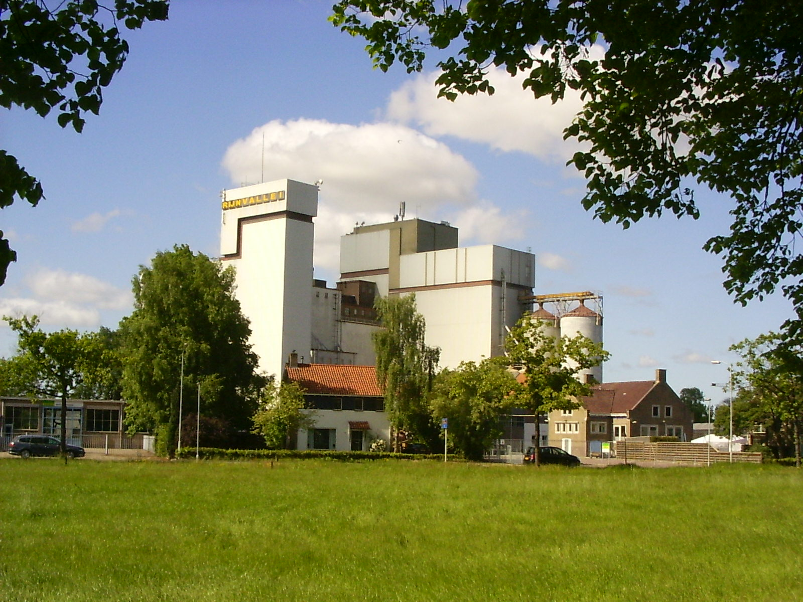 AgruniekRijnvallei factory Barneveld